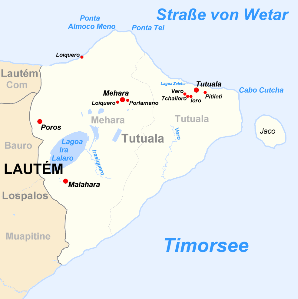 Map of administrative post of Tutuala, municipality Lautém, Timor-Leste